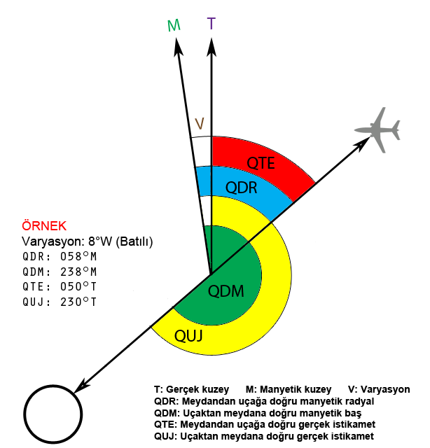 QDM, QDR, QTE and QUJ calculation